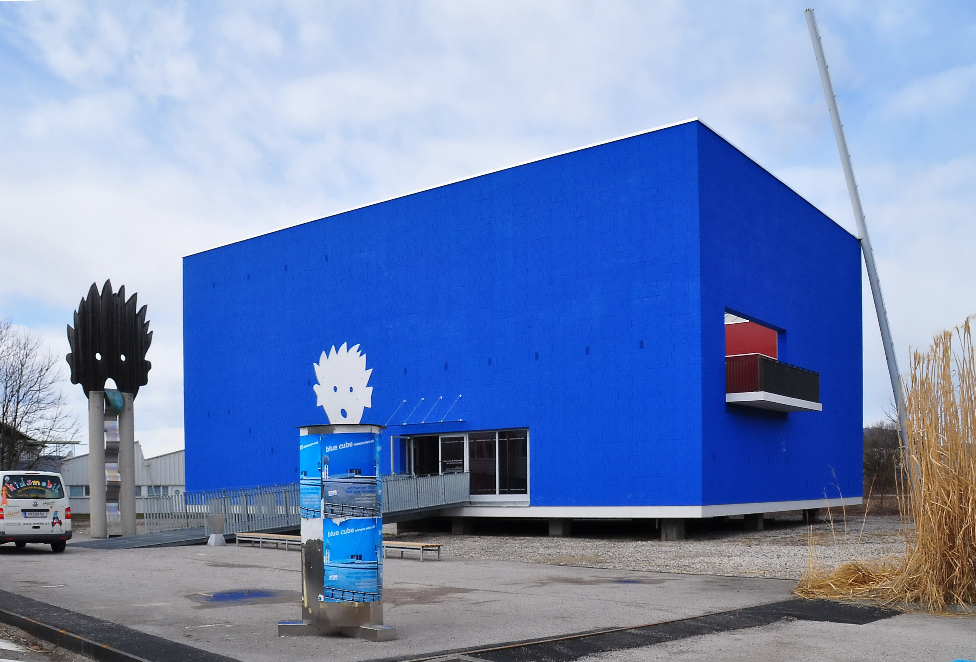 "Blue Cube" authority center on the Primoschgasse #3 in the 11th district "Sankt Ruprecht" of the Carinthian capital Klagenfurt, Carinthia, Austria